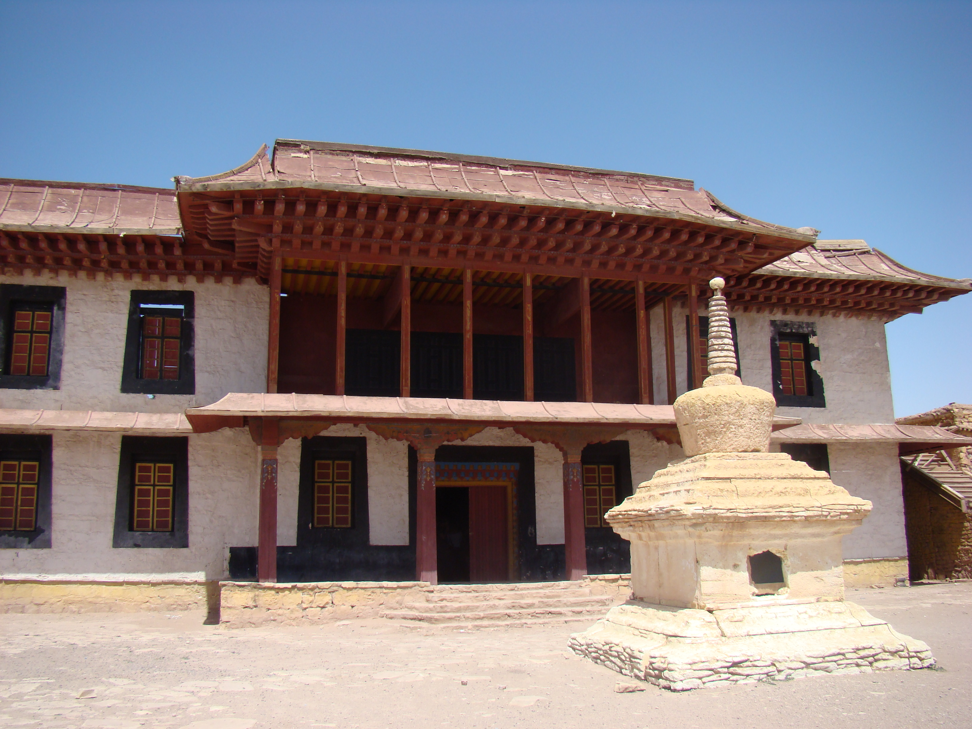 House used in filming the movie Kundun